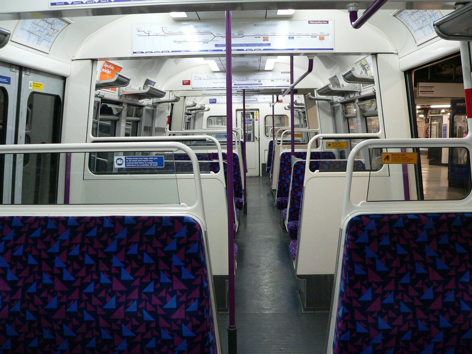 The interior of a London Underground A tube stock Metropolitan Line train at Baker Street station on 24 October 2005.